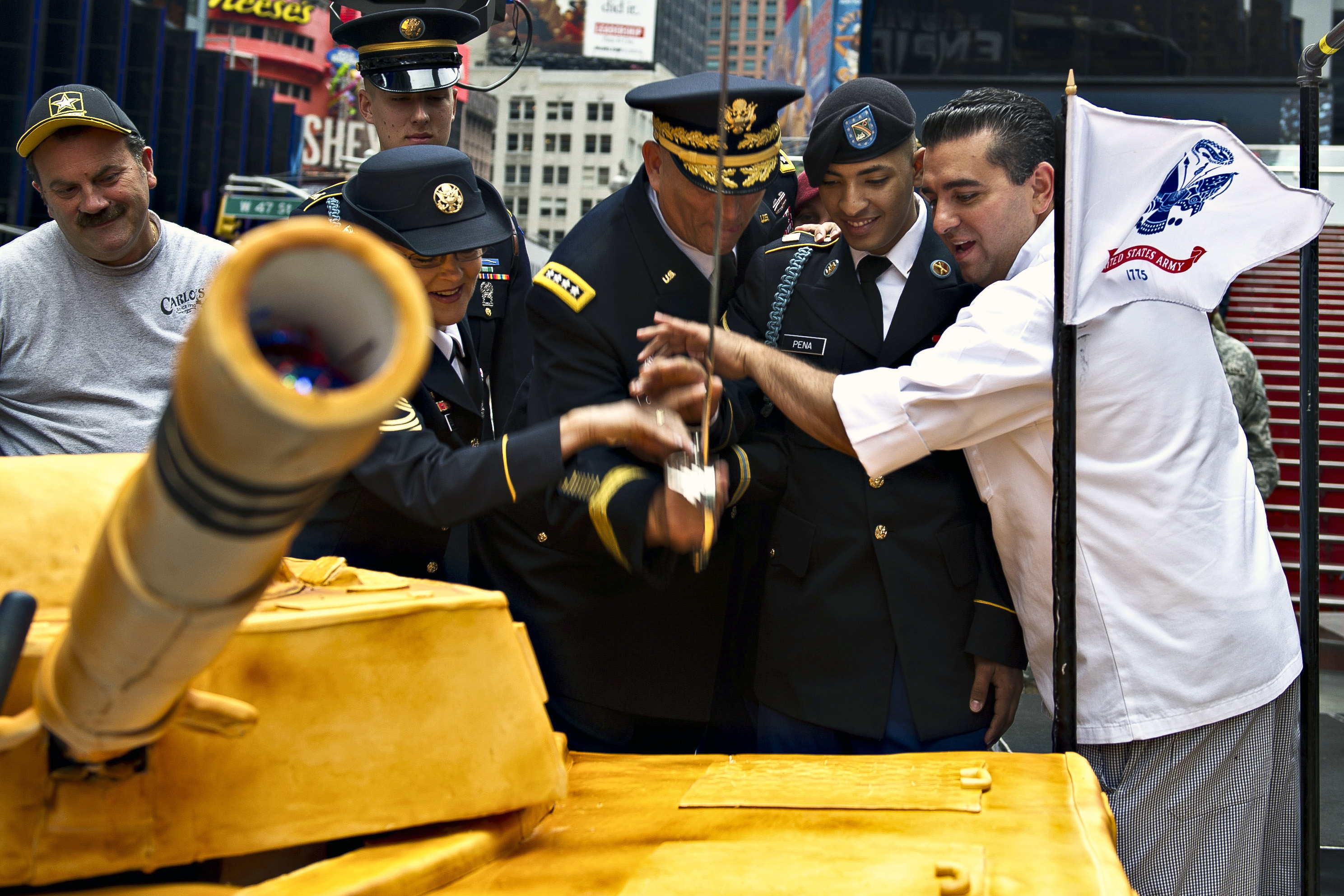 Army Chief of Staff Gen. Ray Odierno is joined by both the youngest and oldest soldiers in the crowd, as well as Buddy Valastro from the television show "Cake Boss," as they cut the cake made to honor the U.S. Army’s 237th birthday at Times Square in New York, June 14, 2012.